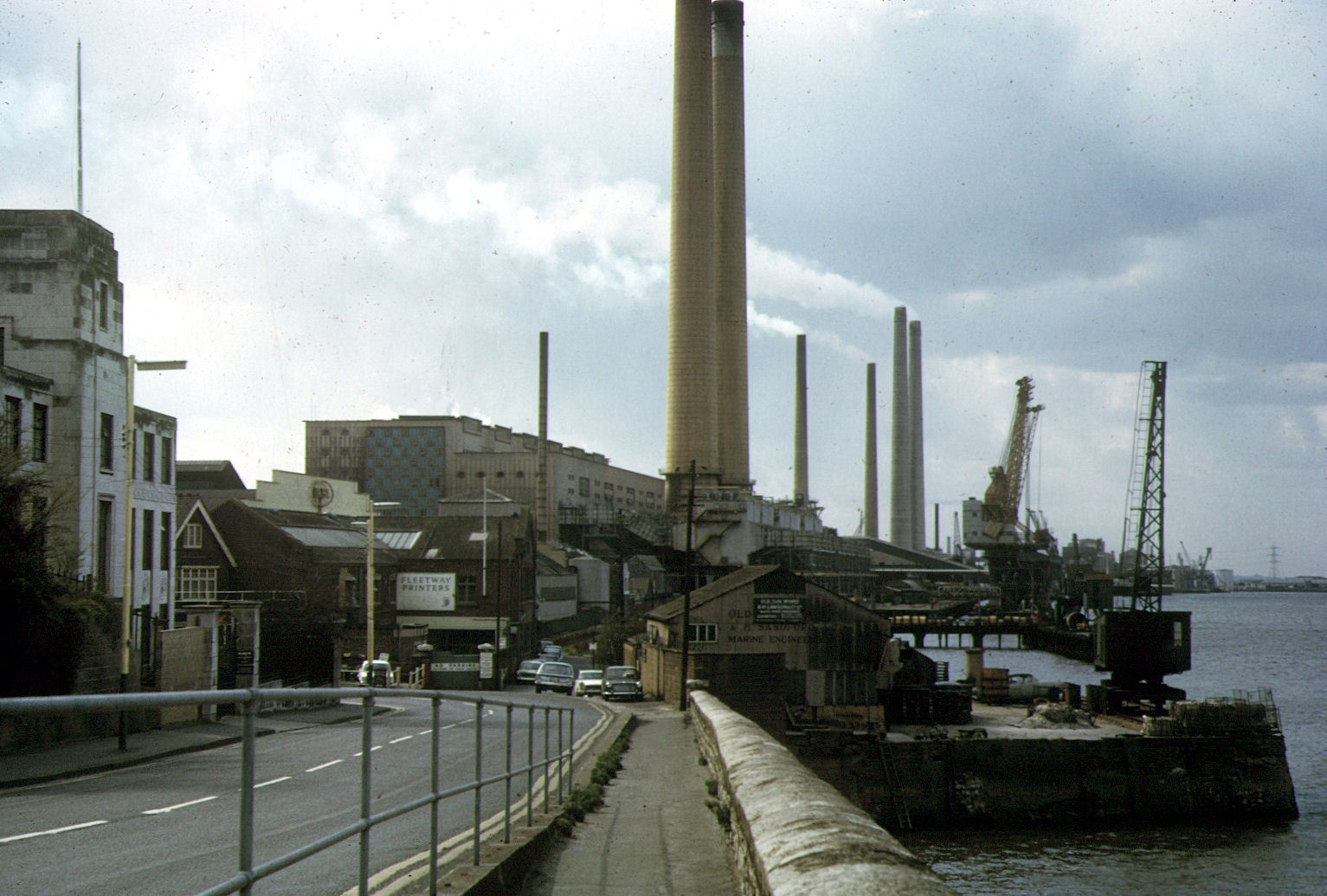 Northfleet Power Station from the east, 1973. Beyond are chimneys of paper and cement mills on the riverfront of Northfleet, Kent.